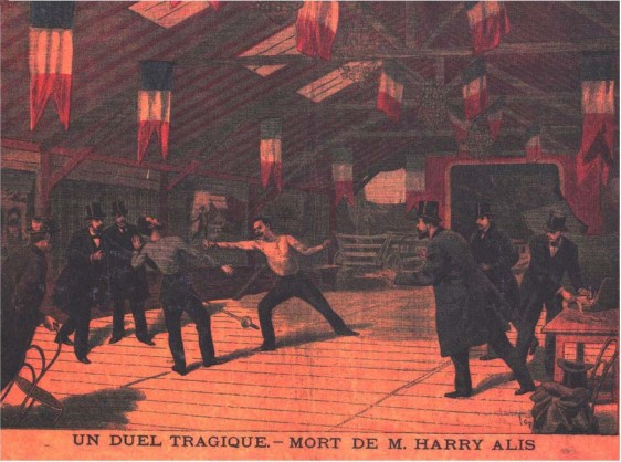 "Un duel tragique - mort de M. Harry Alis" 2 March 1895 duel at the Moulin Rouge restaurant in Neuilly, France, between Alfred Le Chatelier and "Harry Alis" (Léon Hippolyte Percher)